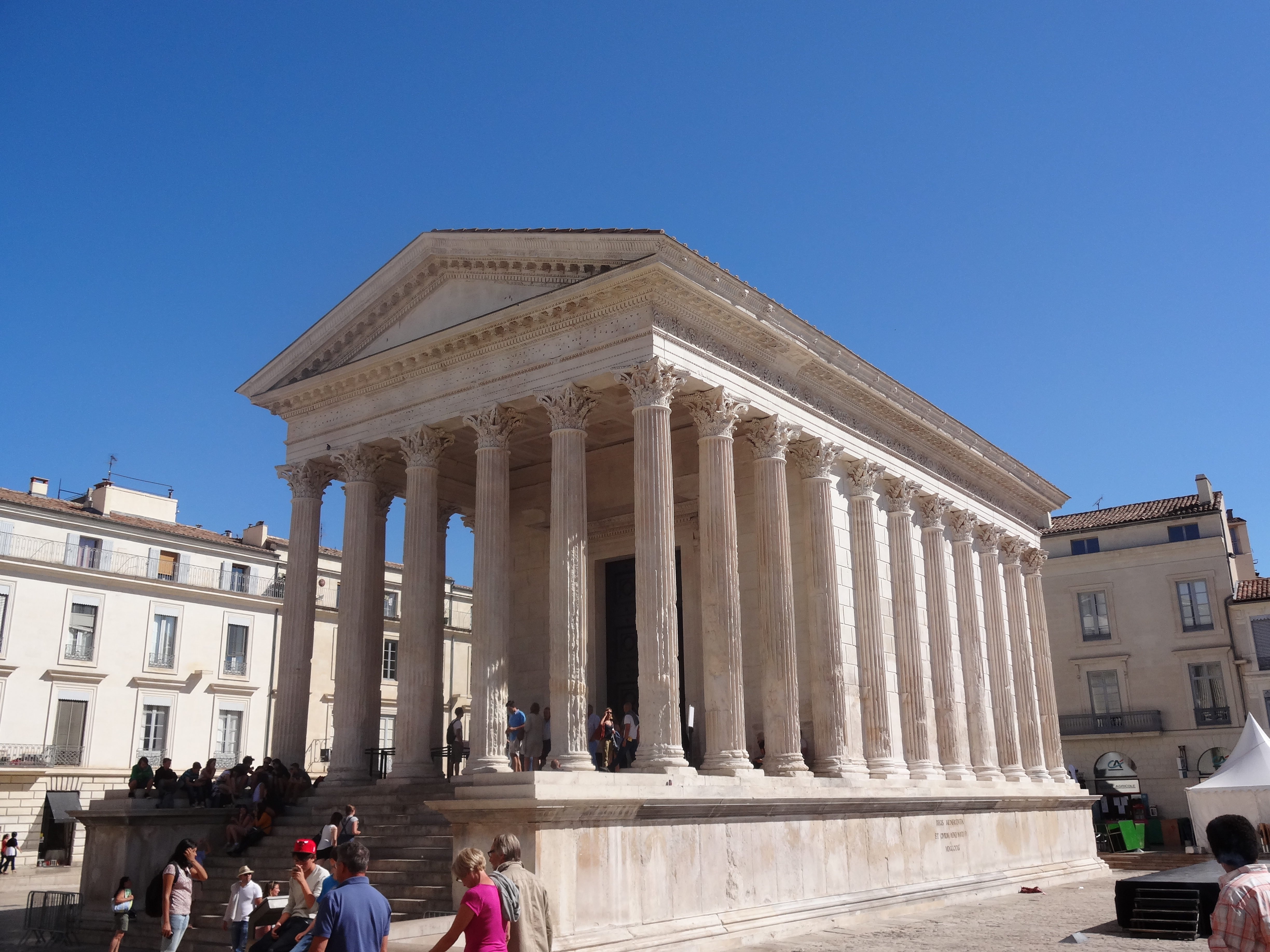 One of the best preserved Roman temples in the world remarkably restored between 2006 and 2010. Built on the forum of the ancient city, the Maison Carree is the finest example of Roman architecture in Narbonne Gaul .